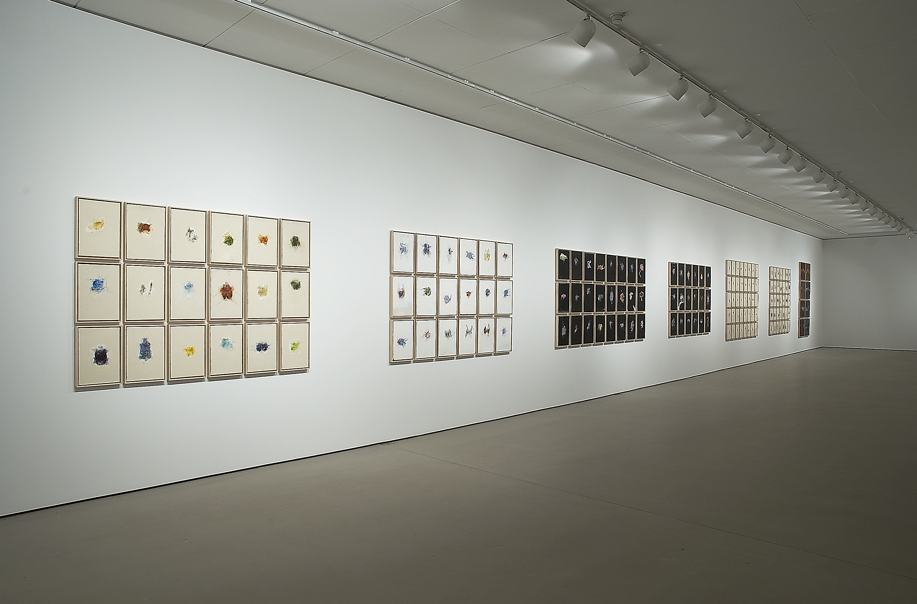 With permission by Mark Lammert.